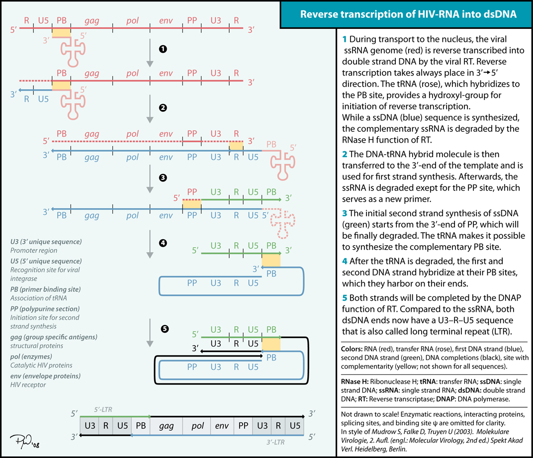 Author is the wikipedia community member crenim. Source: Modrow S, Falke D, Truyen U (2003). Molekulare Virologie, 2. Aufl. (engl.: Molecular Virology, 2nd ed.), Spektr Akad Verl. Heidelberg, Berlin.